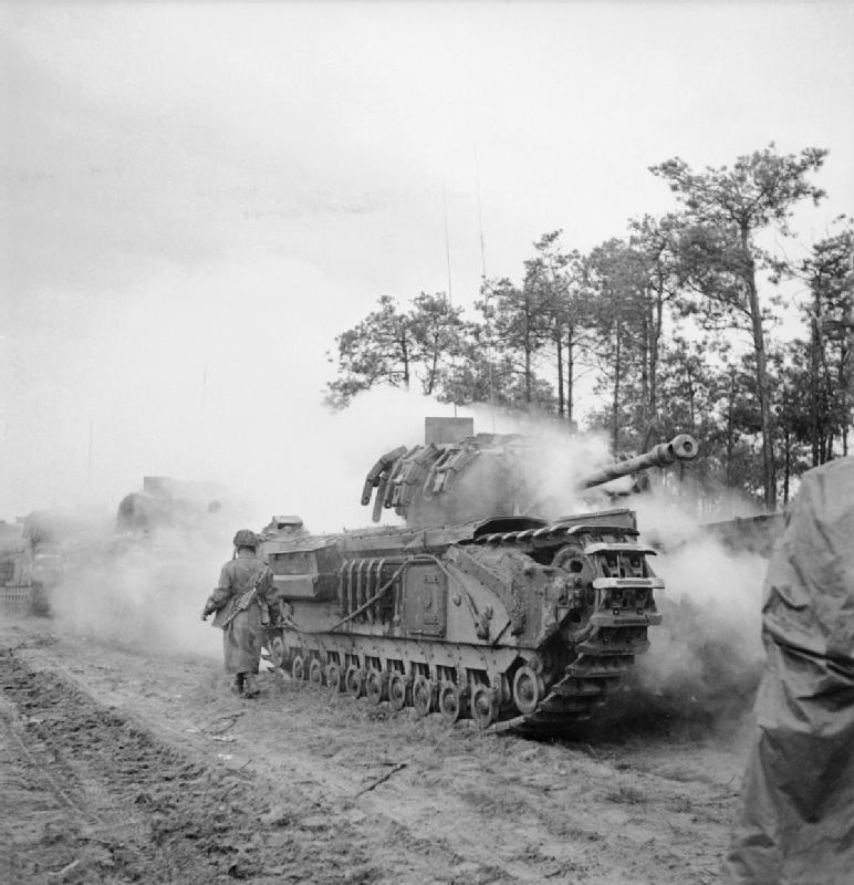 IWM caption : Churchill tanks of 6th Guards Tank Brigade lay a smokescreen during the advance on Venray, Holland.